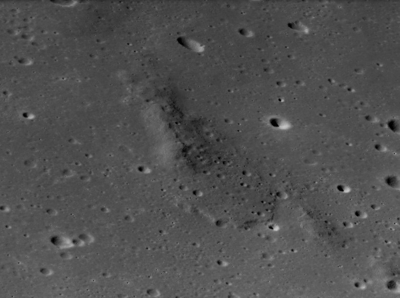 Oblique view facing south of Mons Esam, Mare Tranquillitatis, on the moon. Taken by Apollo 17 panoramic camera.